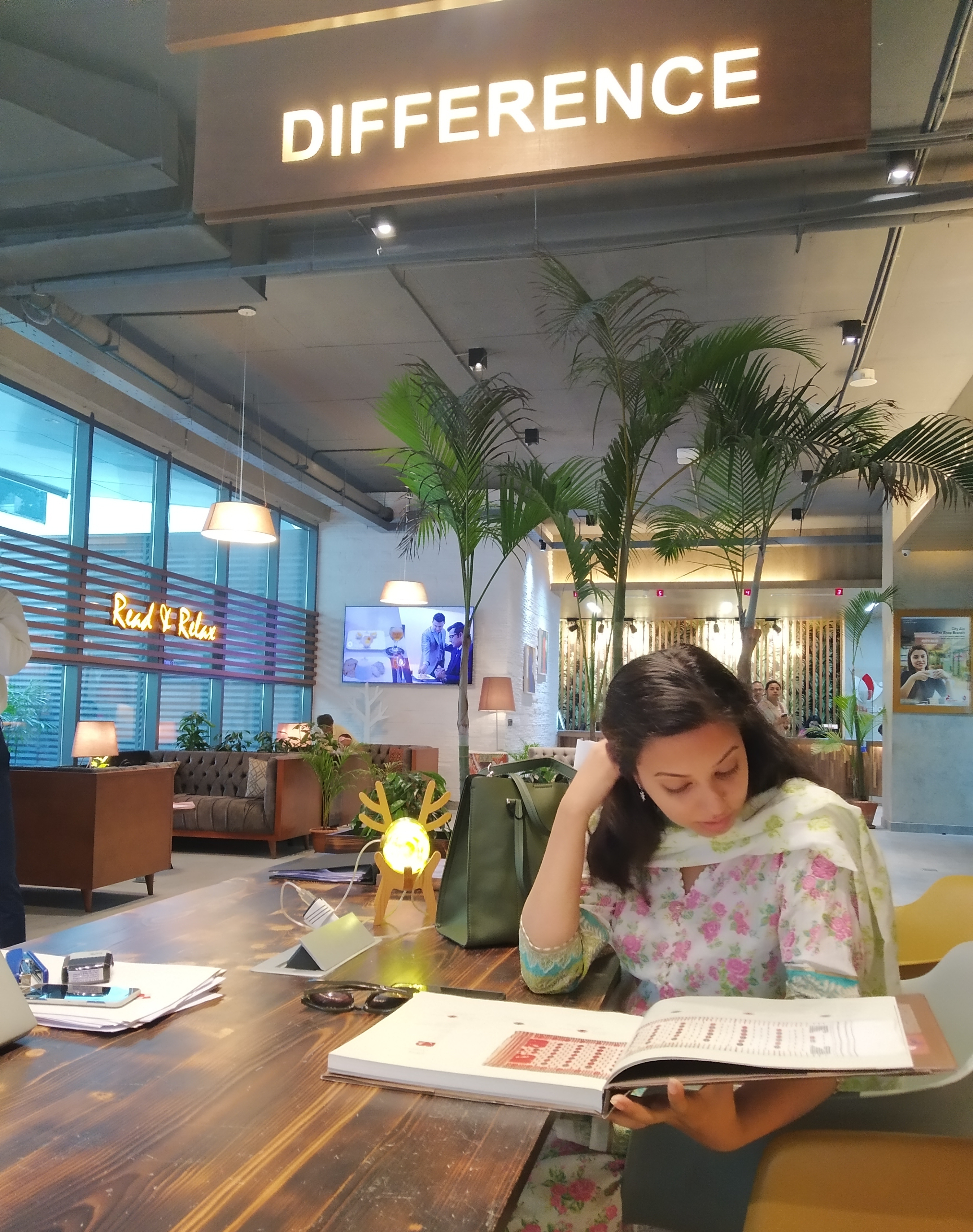 A customer in City Alo Center. Featuring designer Neshat Unzum